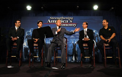 President George W. Bush leads the discussion during a forum with small business owners and employees at Dagher Printing in Jacksonville, Fla., Thursday, Feb. 13, 2003. Also pictured, from left, are: Hector Barreto, Administrator of the Small Business Administration; Zimmerman Boulos, owner of Office Environments and Services; Joseph Dagher, owner of Dagher Printing and Jose Gonzalez, employee at Office Environments and Services. White House photo by Eric Draper